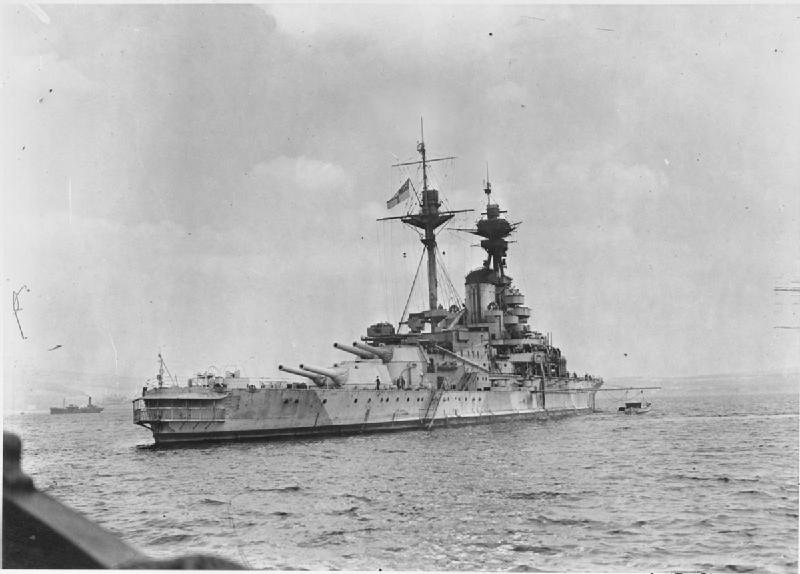 The Royal Navy during the Second World War The battleship HMS Revenge (06) at Greenock after her return from the Indian Ocean in September 1943. Note the sternwalk on the ship.